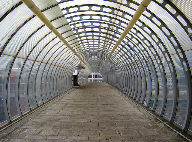 Inside crossbridge, Poplar DLR Station, Poplar, Tower Hamlets, London. 4 February 2006. Photographer: Fin Fahey.